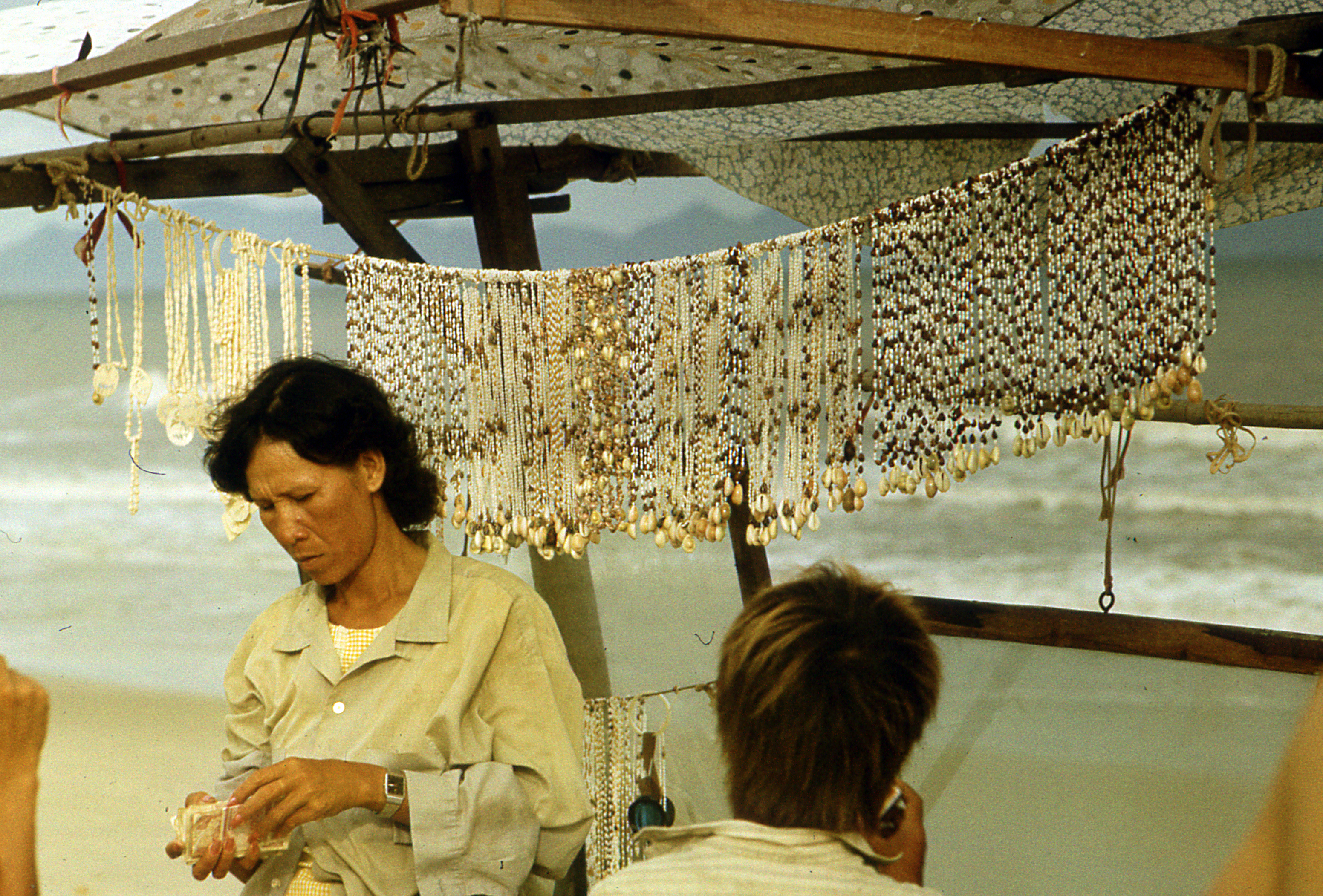 Same pictures from history. This are made in 1990 in Vietnam. It's scanning from slide. Factory worker first time abroad.